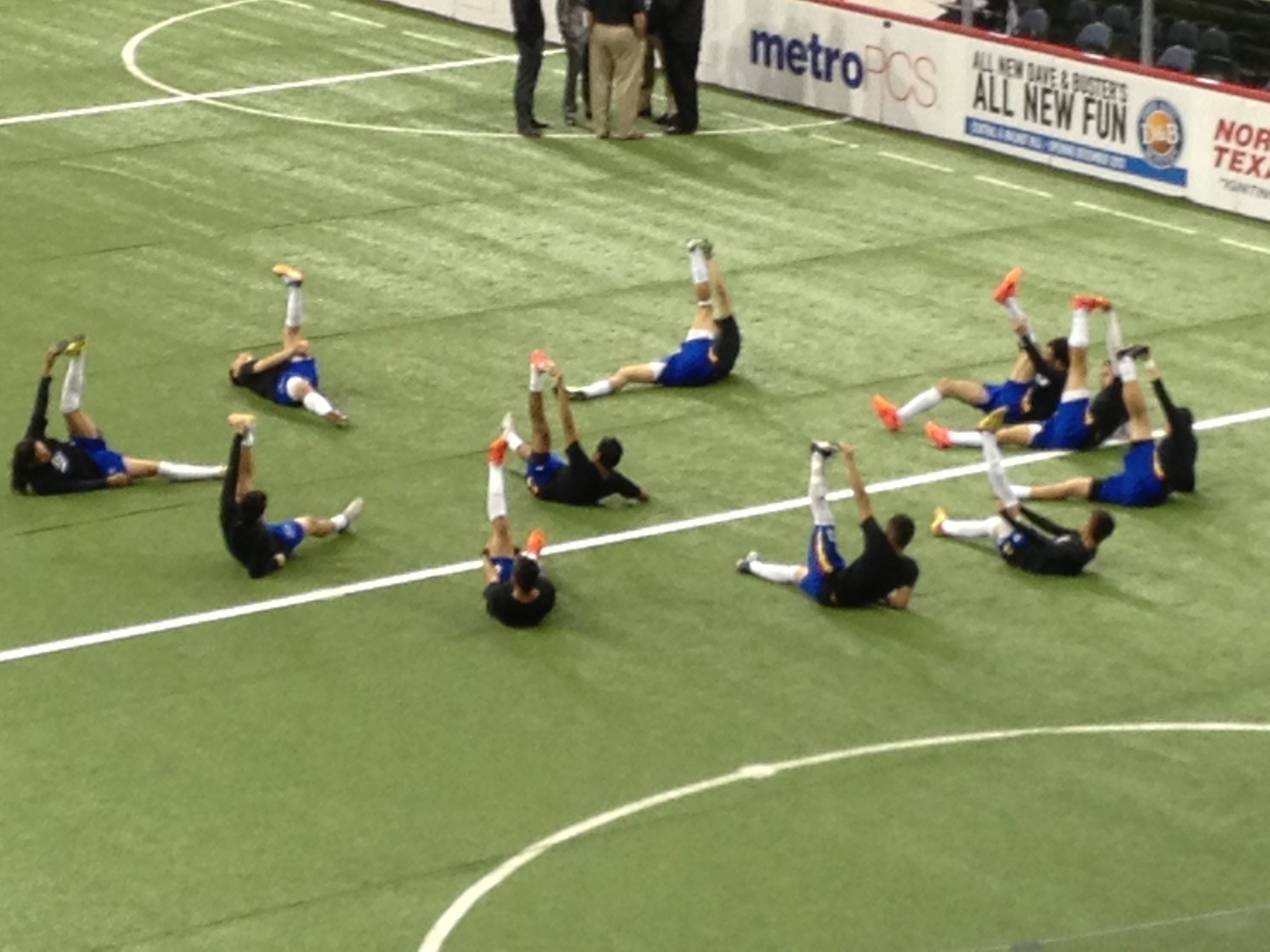 The Rio Grande Valley Flash warming up before a February 28, 2013, Professional Arena Soccer League playoff match against the Dallas Sidekicks at the Allen Event Center in Allen, Texas.